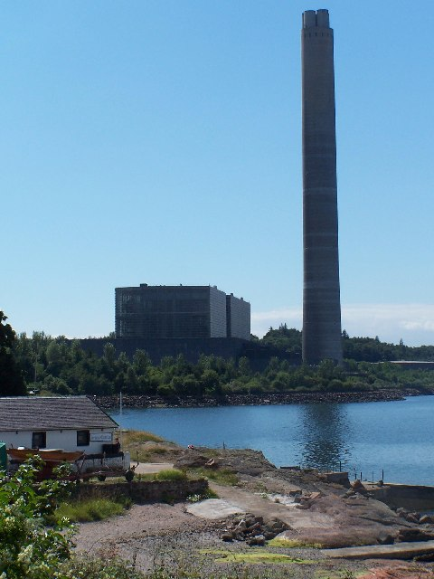 Inverkip Power Station. Taken from Inverkip Bay.